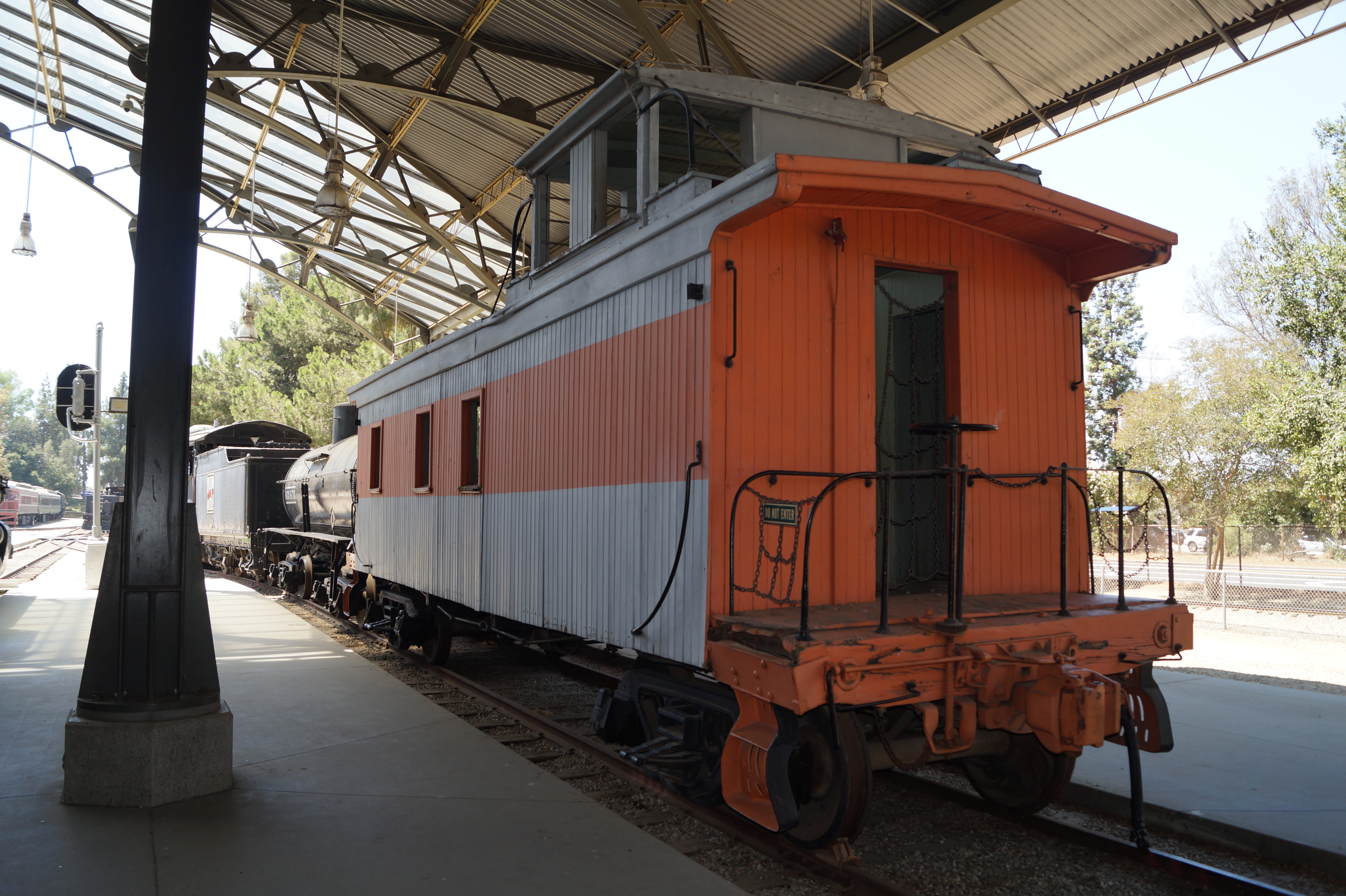 Travel Town Museum is a transport museum dedicated in the northwest corner of Los Angeles, California's Griffith Park. The history of railroad transportation in the western United States from 1880 to the 1930s is the primary focus of the museum's collection, with an emphasis on railroading in Southern California and the Los Angeles area.